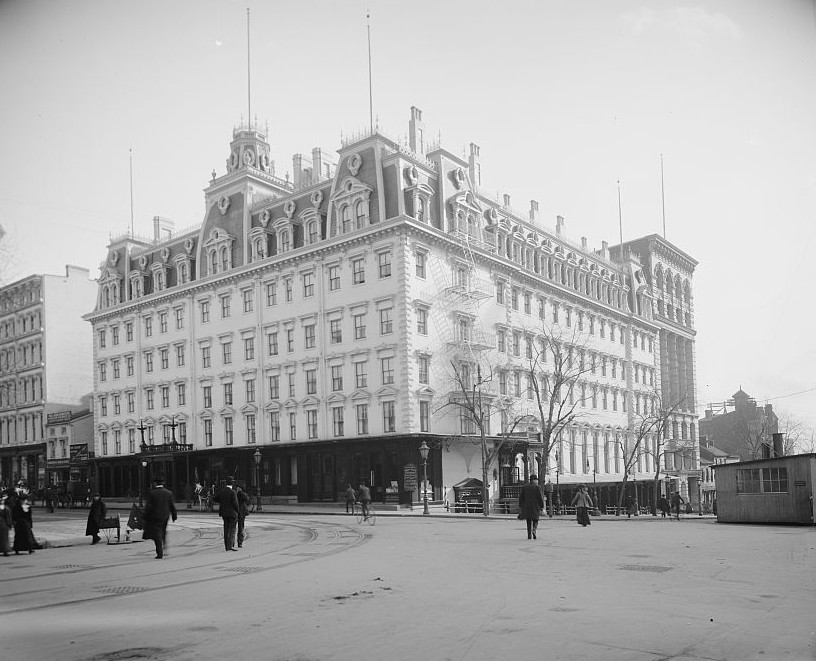 Ebbitt House, a hotel and restaurant, in 1903. It was located at the southeast corner of F Street NW and 14th Street NW in the city of Washington, D.C., in the United States. This structure was built in 1872 by Caleb Willard. It replaced the original Ebbitt House (several structured built between 1800 and 1836 and united into a single structure in 1856). The 1872 building's low, mansard roof was replaced in 1895 with the two-story, much more elaborate mansard rooft seen here. The structure was razed in 1926 to make way for the first National Press Building.